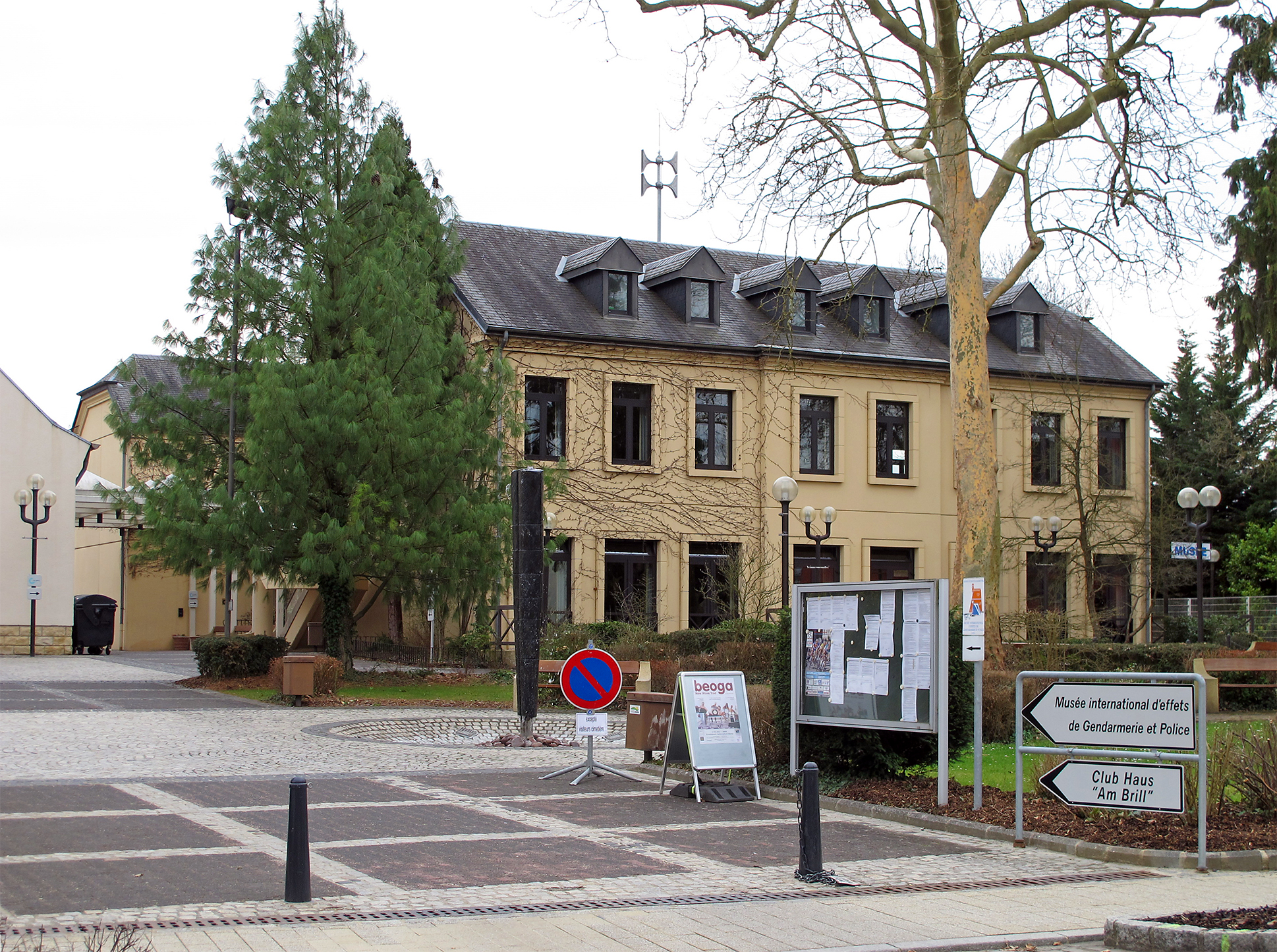 Cultural center in Capellen, Luxembourg